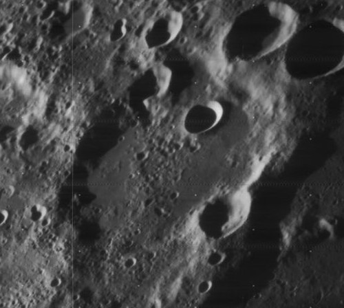 Oblique view of Gilbert, on the moon.